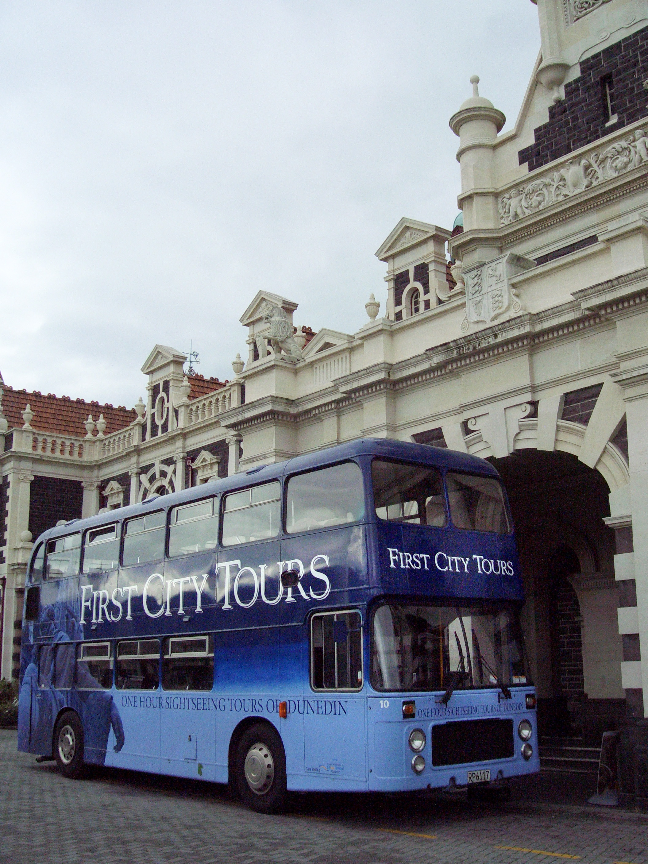 Bristol double decker bus operated by Citibus Ltd subsidiary First City Tours providing a sightseeing tour of Dunedin ready to depart from Dunedin Railway Station forecourt.